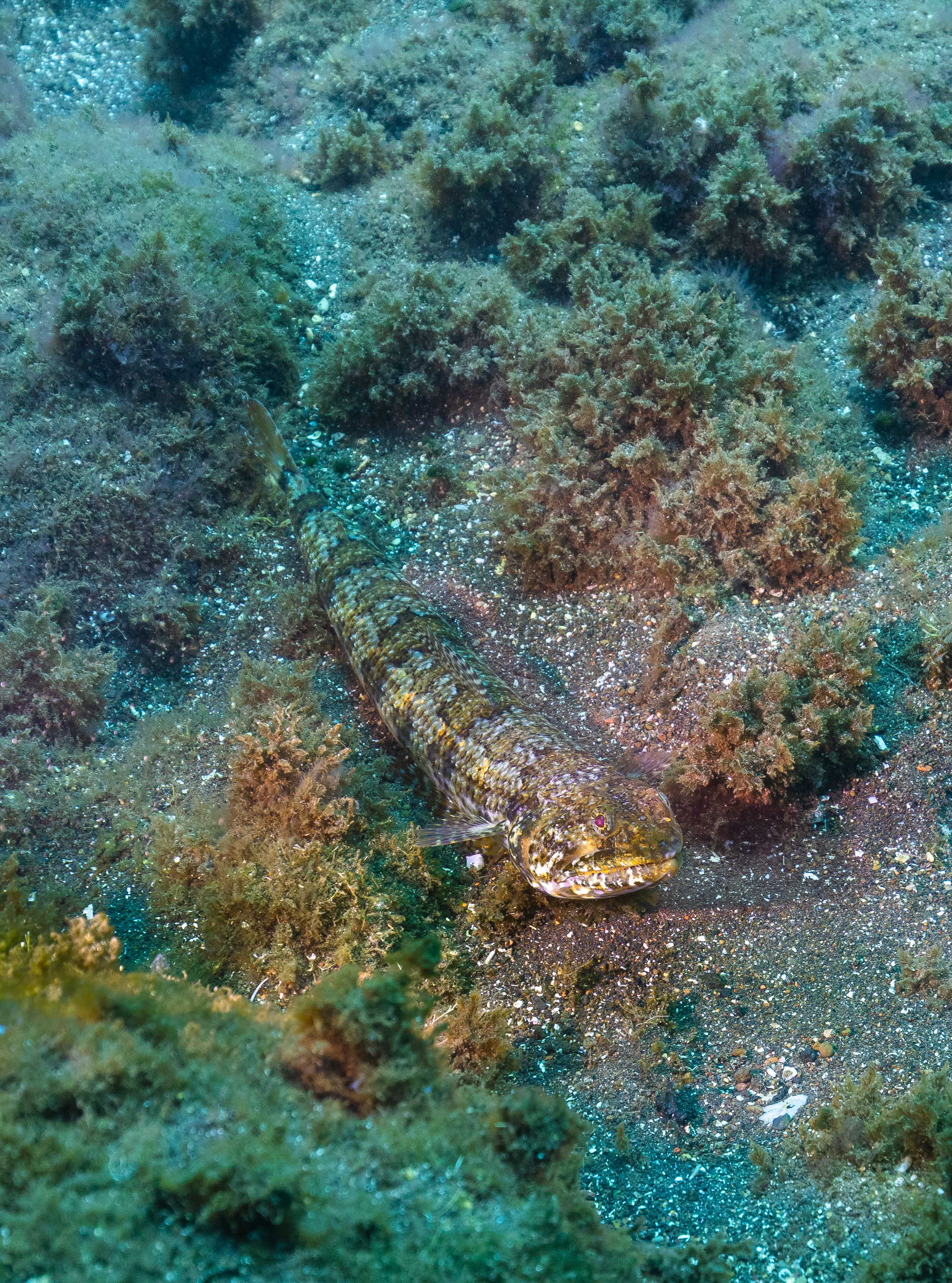 Diamond lizardfish (Synodus synodus), Madeira, Portugal